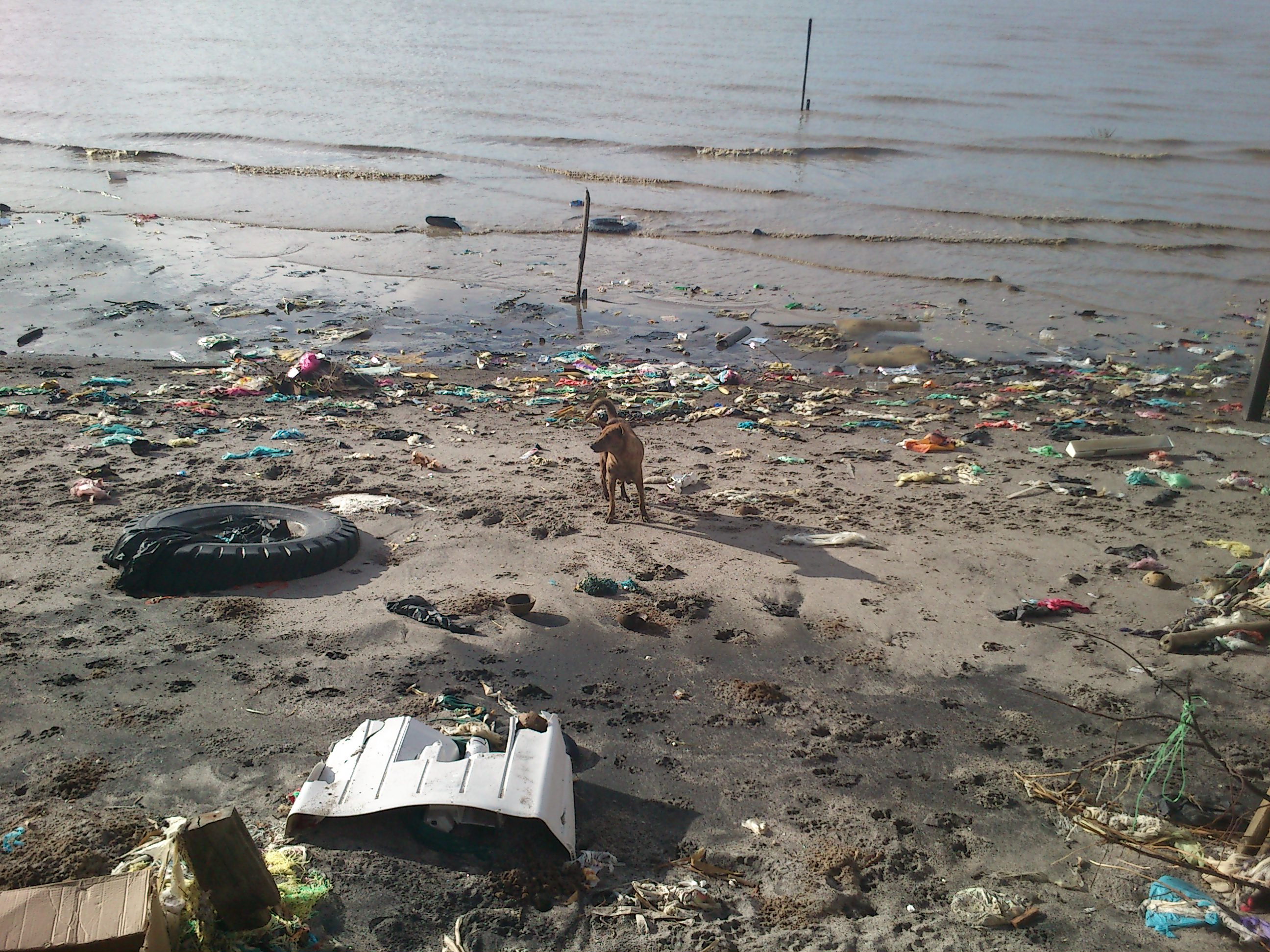 Sea pollution in Kampung Titingan, Tawau, Sabah, Malaysia.